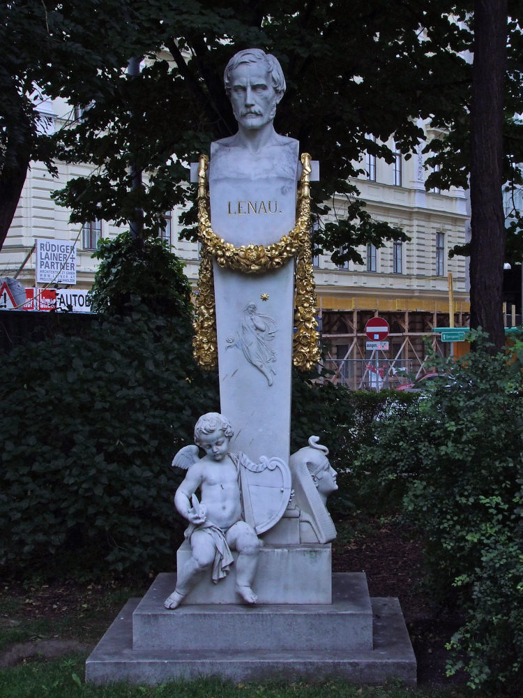 Statue of Nikolaus Lenau at the Schillerplatz in Vienna